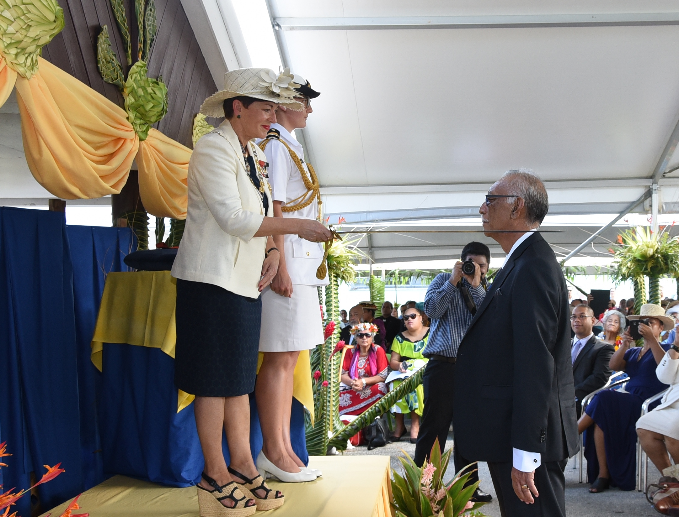 The Governor-General, the Rt Hon Dame Patsy Reddy dubs Sir Toke with a sword at the investiture ceremony